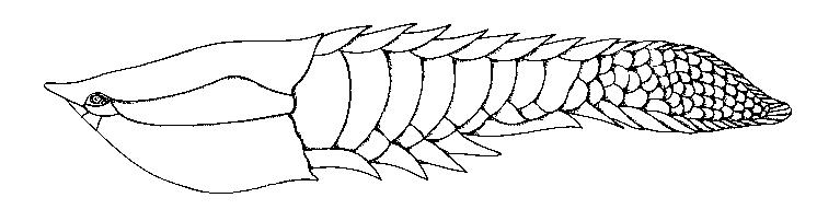 Poraspis (Cyathaspidae: Cyathaspidiformes)